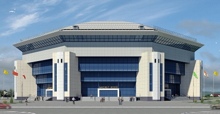 вид сверху